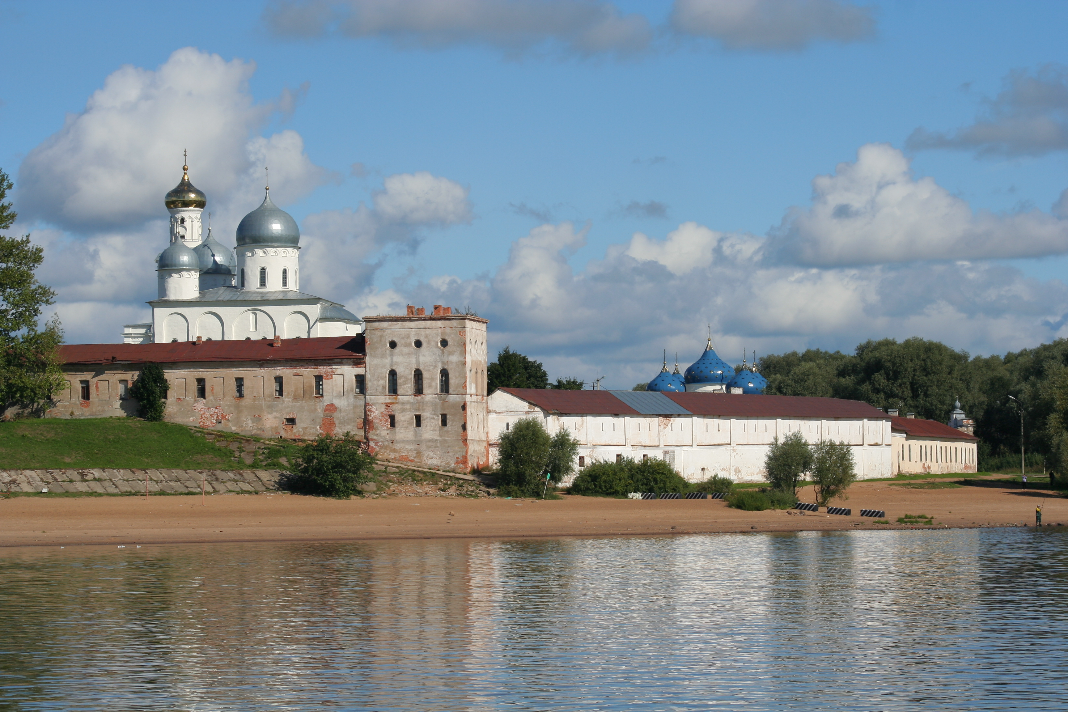 Views of Velikiy Novgorod. The Yuriev Monastery as seen from the river.